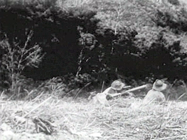 News Magazine of the Screen, The (Vol. 4, Issue 4) (1953/12): "The war in Indo-China goes on."